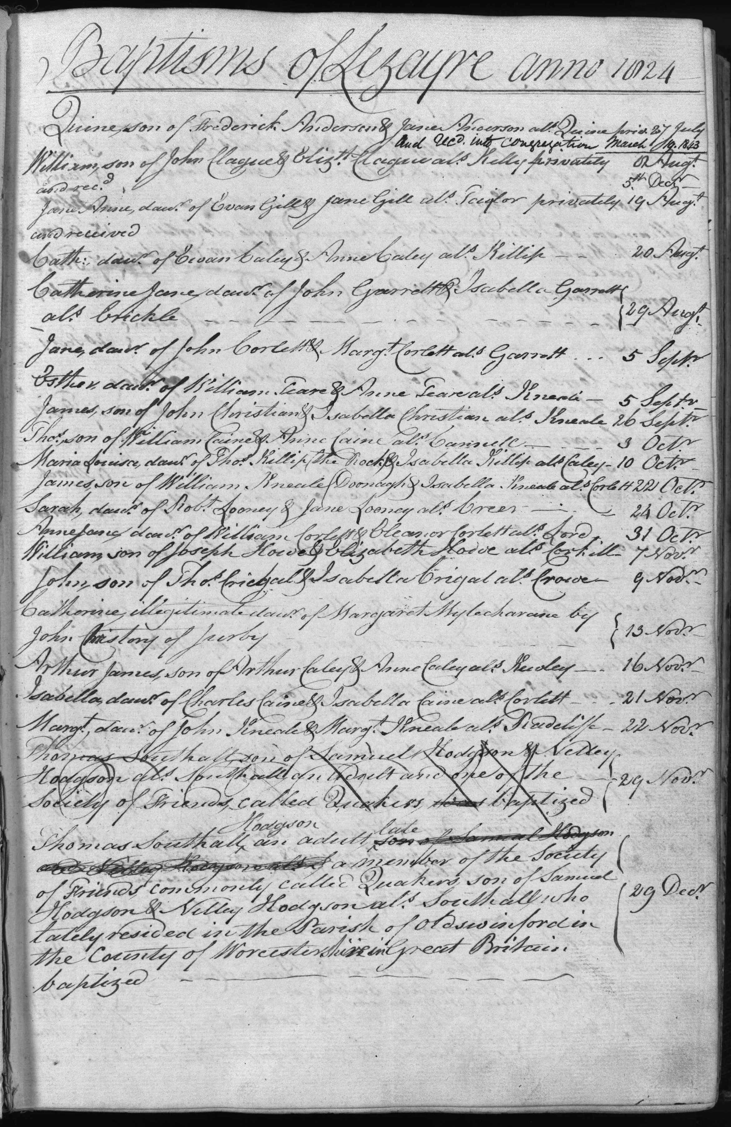 Arthur James Caley (1824–1889) baptism